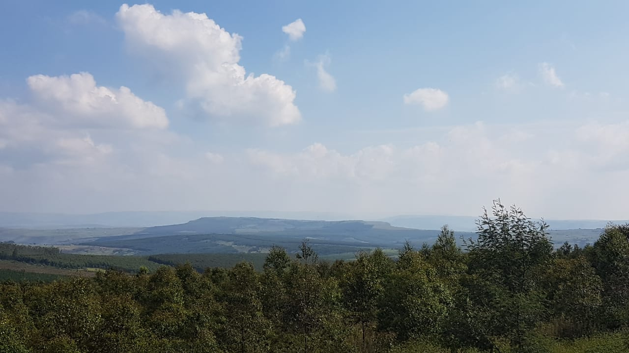 This is an image with the theme "Play" from: South Africa